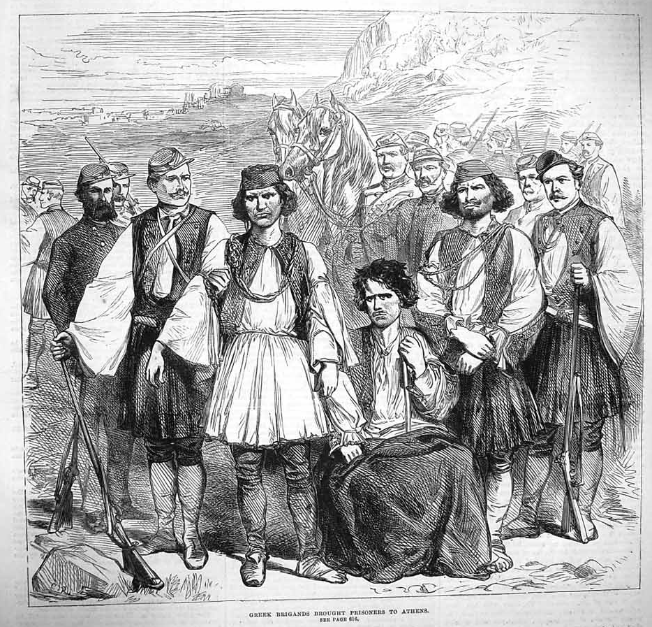 The brigands responsible for the Dilessi murders are brought captive to Athens